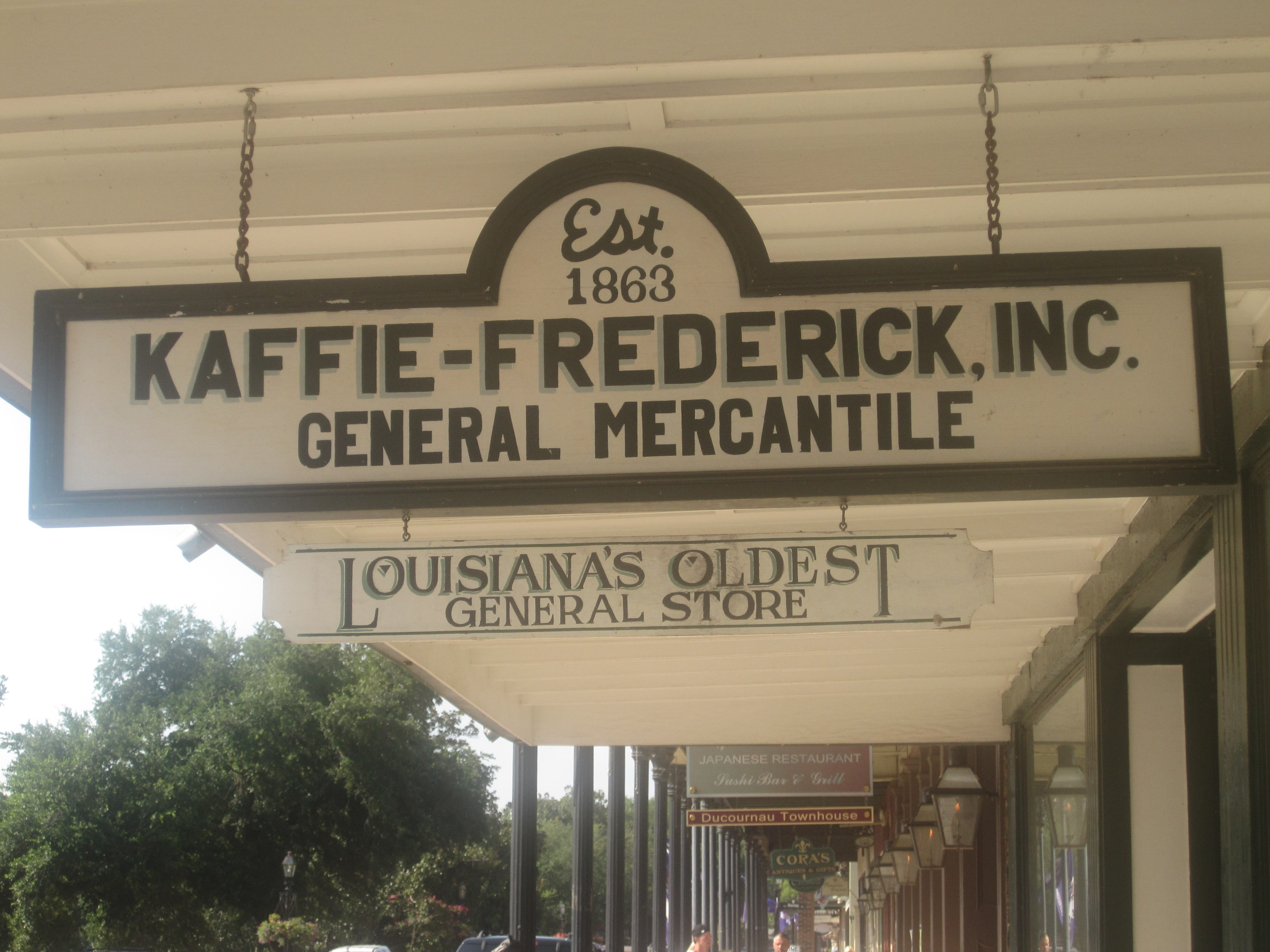 Kaffie-Frederick, Inc., General Mercantile, Natchitoches, LA IMG_1931.JPG